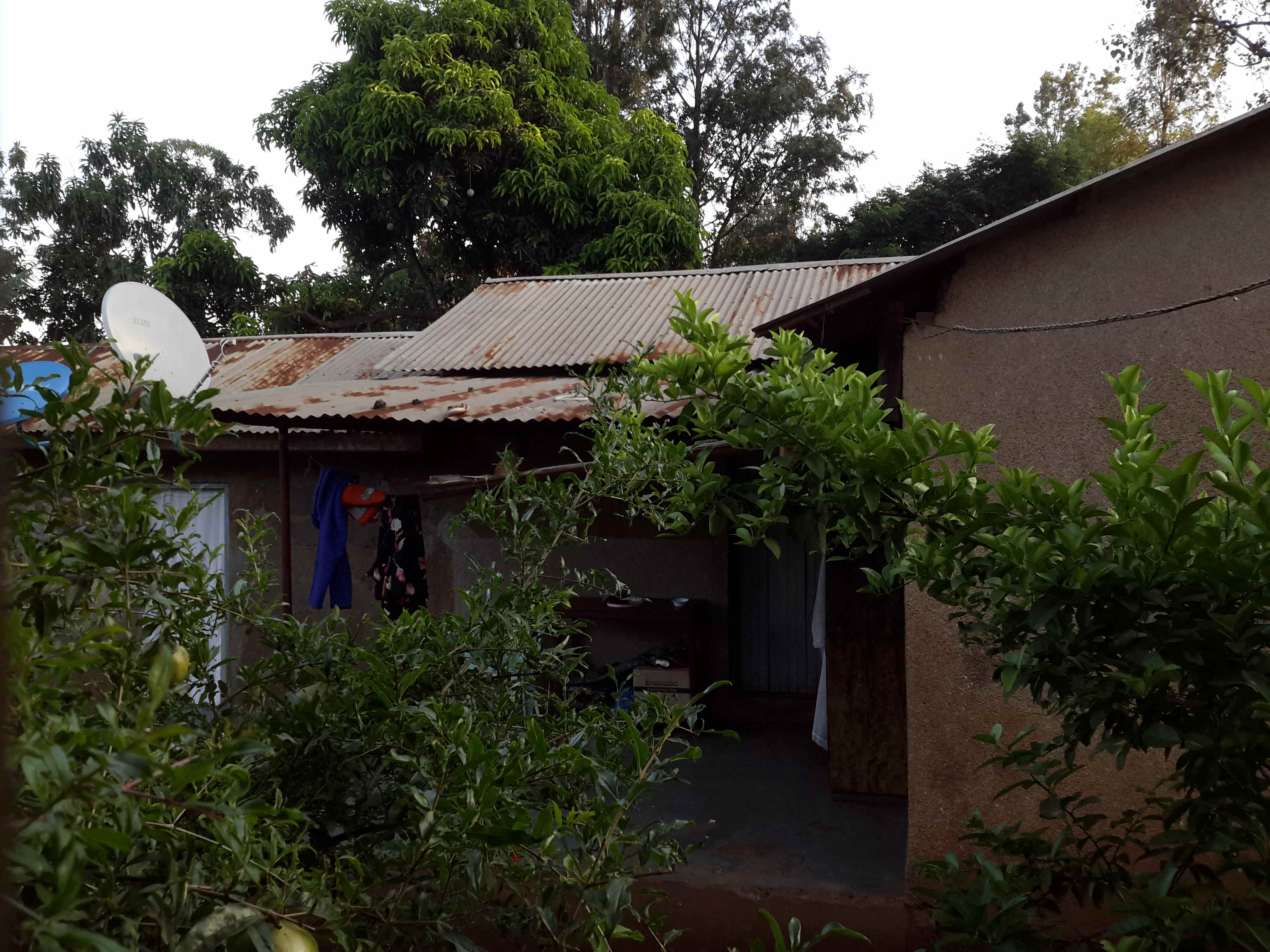 African enviroment, picture taken during evening the sun has set already, its really a cool and friendly enviroment.